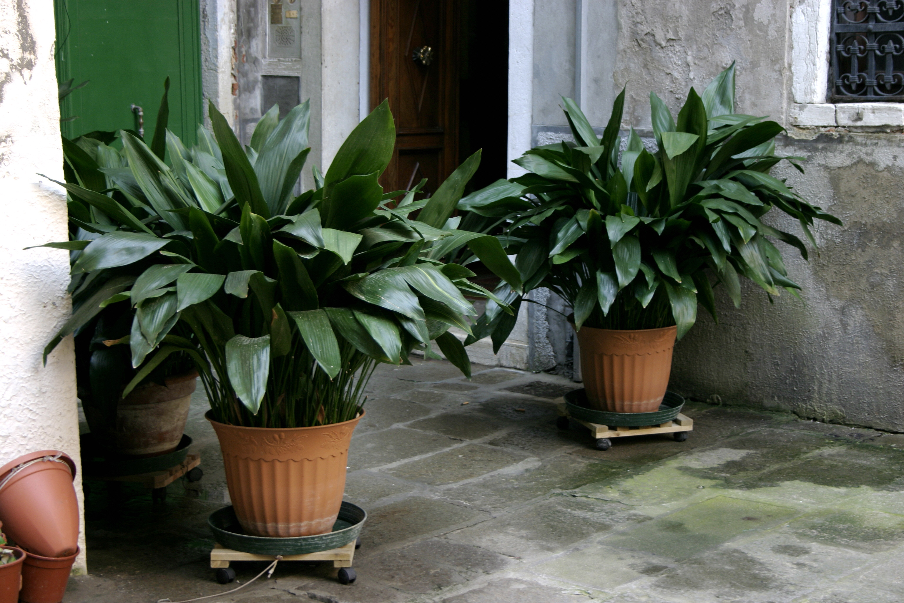 Iron plant, Barroom plant, Cast-iron plant)